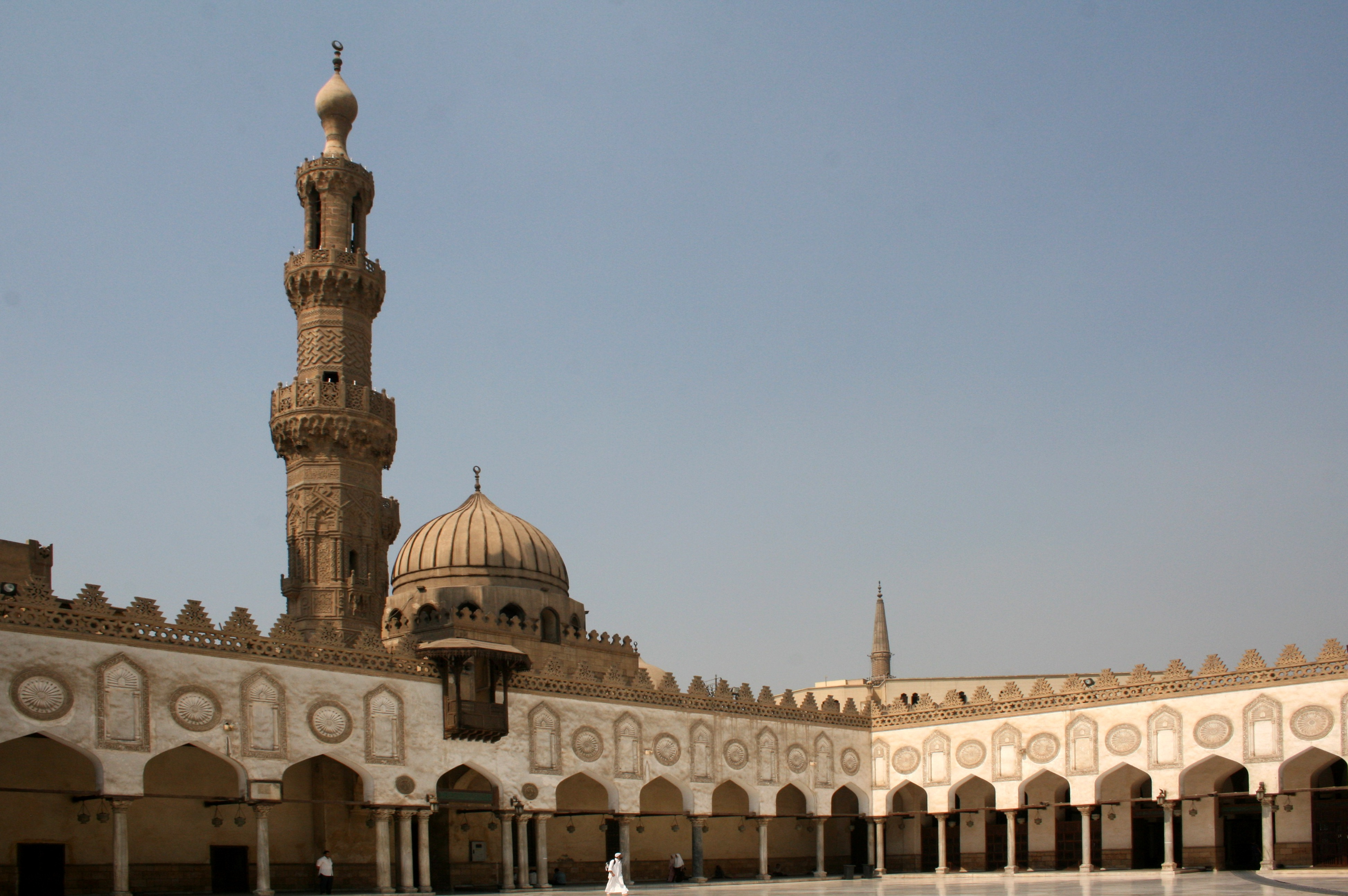 Al-Azhar Mosque, Cairo, Egypt